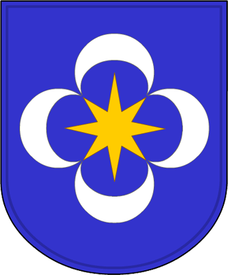 Arms of the Portuguese Marquis of Pombal. Made by JSobral